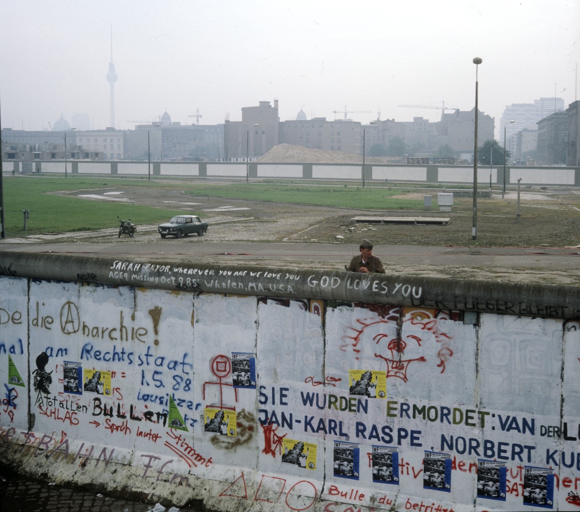 Berlin Wall, eastgerman border guard looks at the Kubat-Dreieck, July 1st 1988